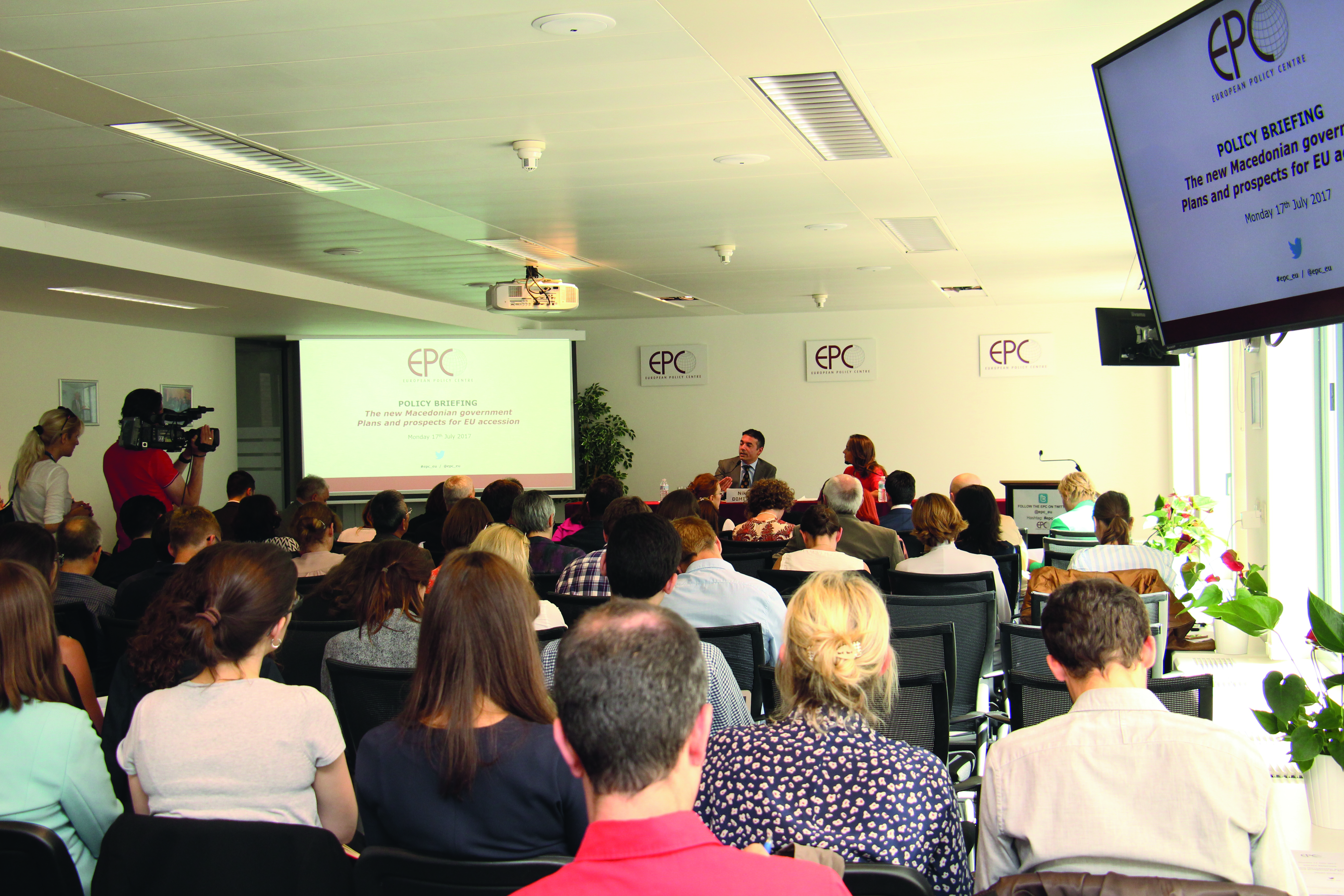 EPC events are mostly held in its custom-built conference centre which caters for a variety of meeting formats from public panel debates in the Auditorium to smaller roundtable discussions in the Max Kohnstamm room.